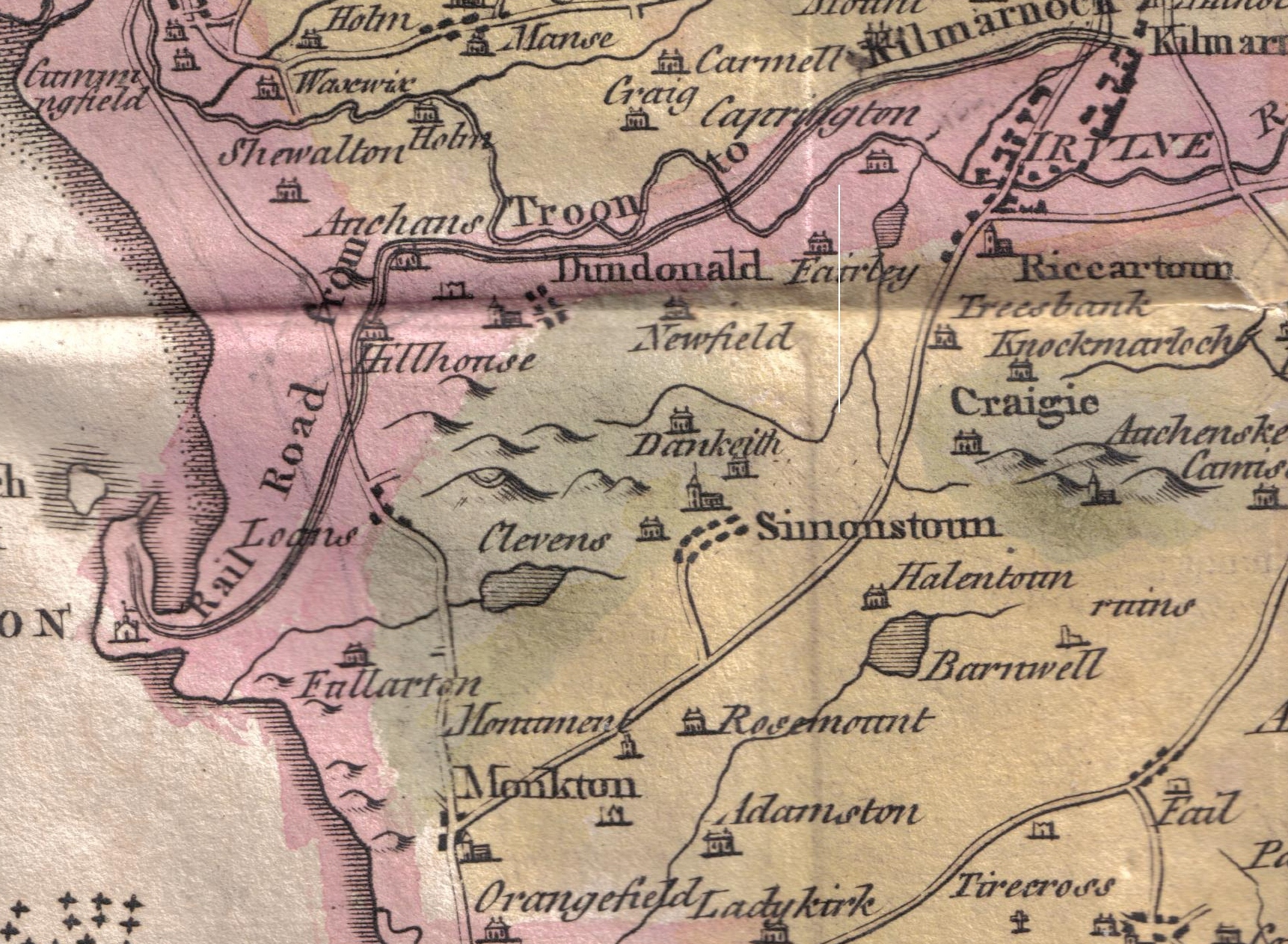 William Aiton's map showing the Dundonald and Newfield area